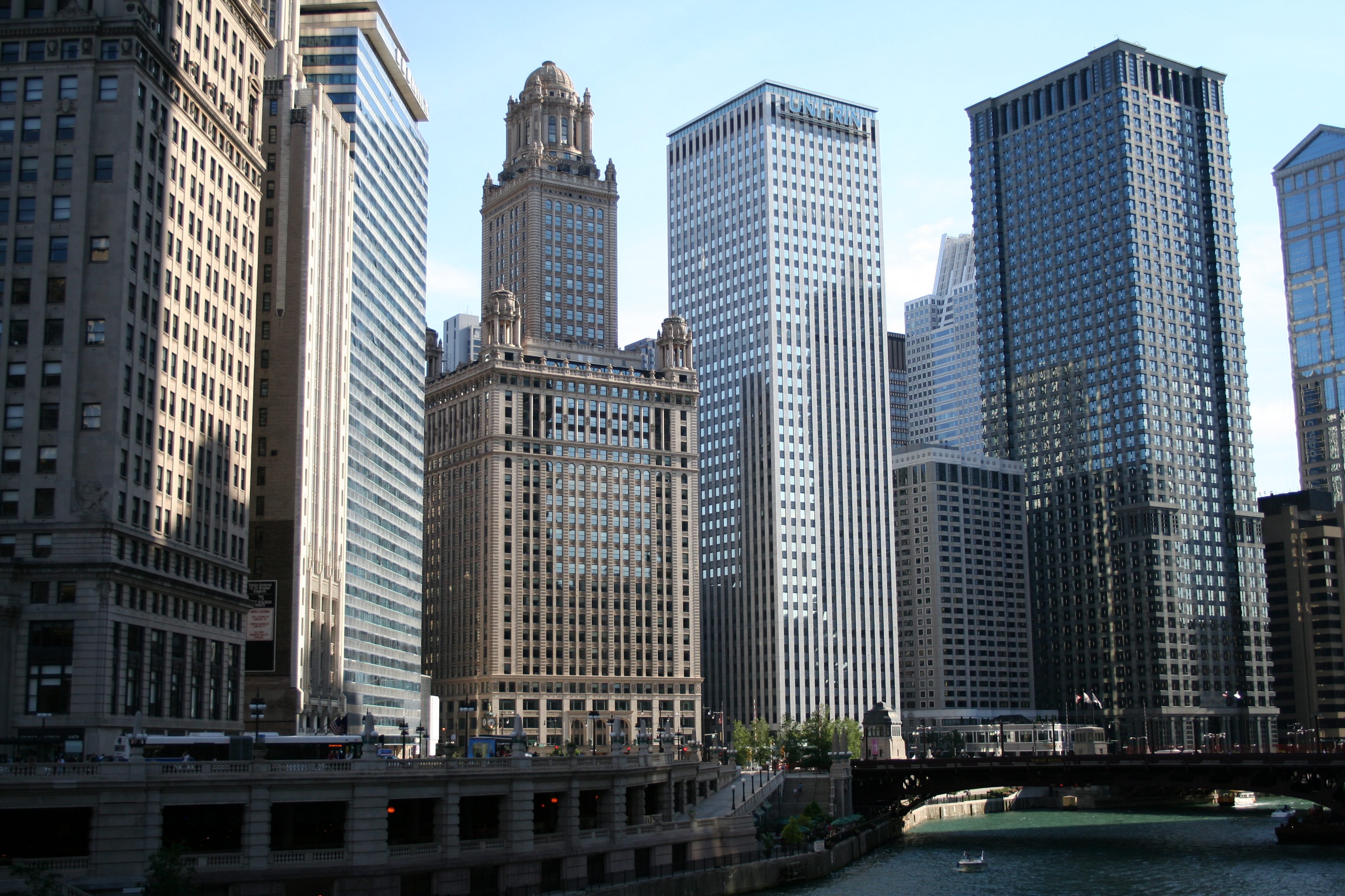 A photograph taken of the buildings lining the Chicago River.